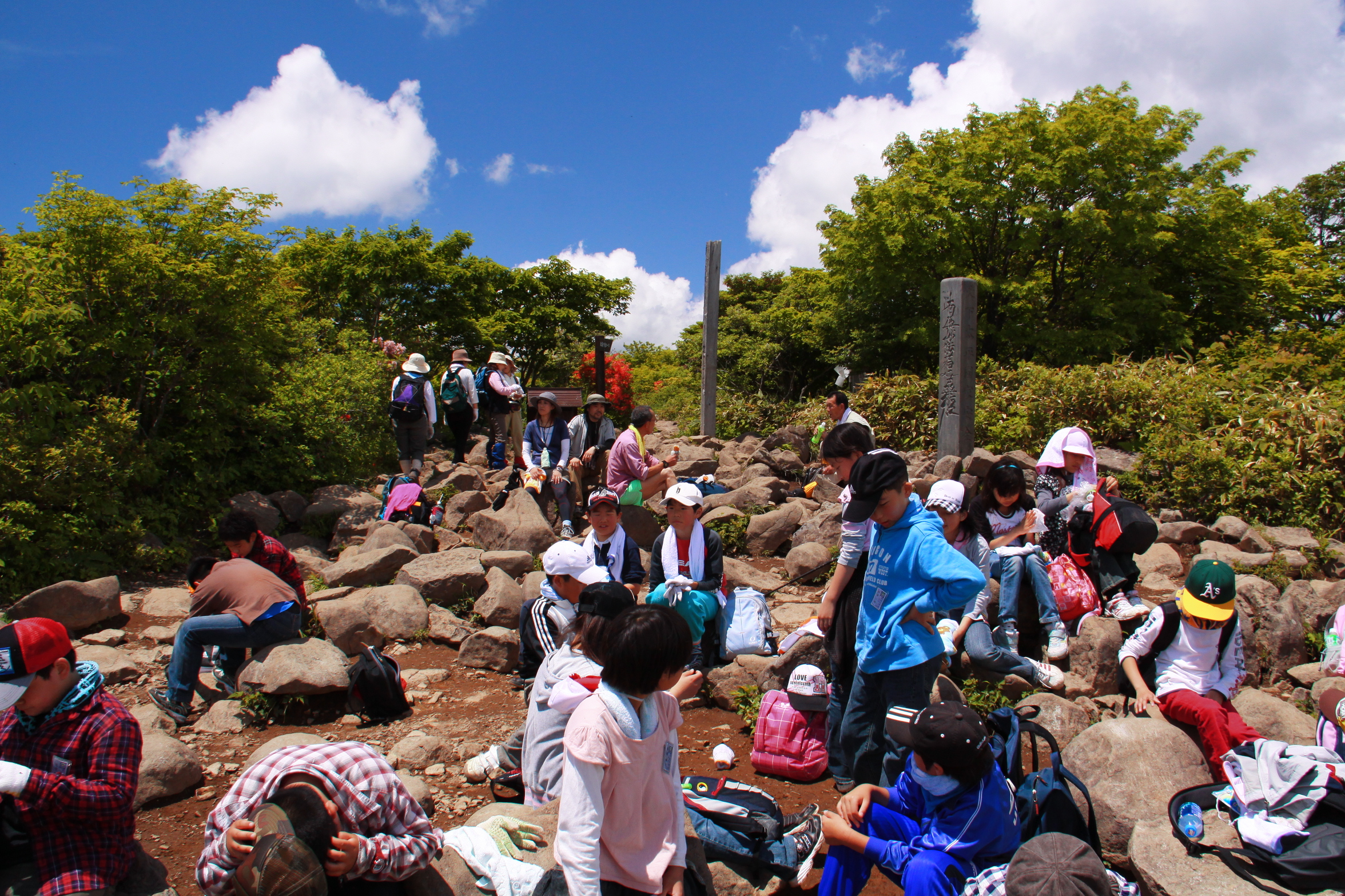 The top of Mt.Izumigatake